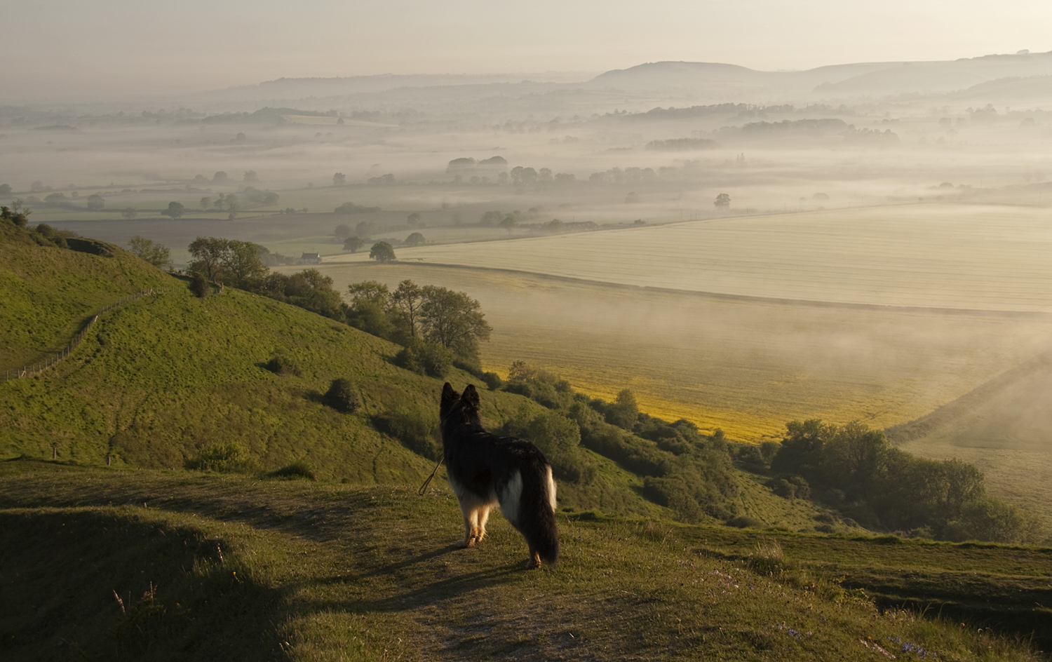 An early morning to catch the mist in the Vale. It was worth the walk!